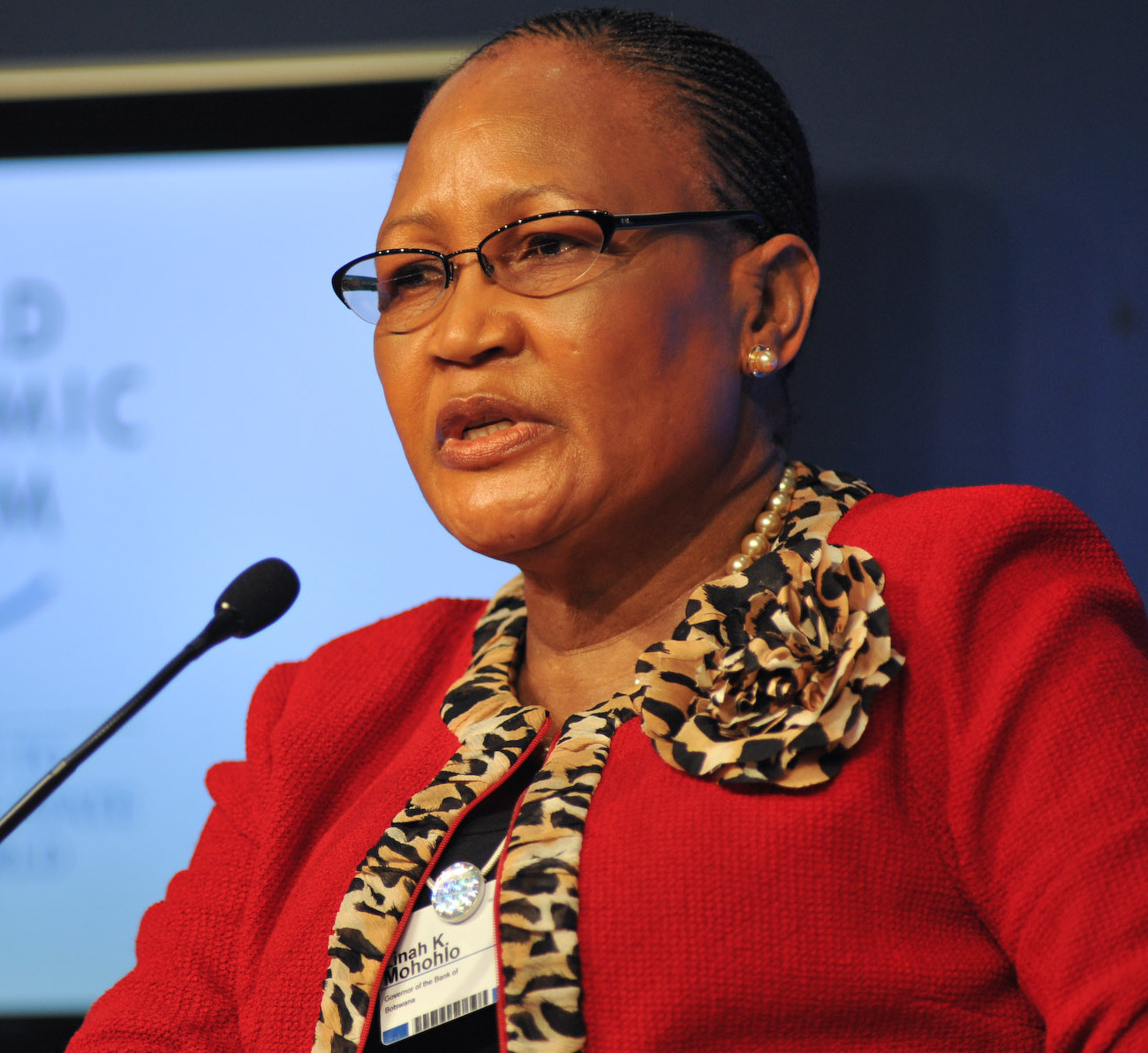 CAPE TOWN\SOUTH AFRICA, 06MAY11 - Linah Mohohlo, Governor and Board Chairman of the Bank of Botswana; Co-Chair of the World Economic forum on Africa, during the Closing Plenary: Africa's Next Chapter at the World Economic Forum on Africa 2011 held in Cape Town, South Africa, 4-6 May 2011. Copyright (cc-by-sa) © World Economic Forum ( Eric Miller